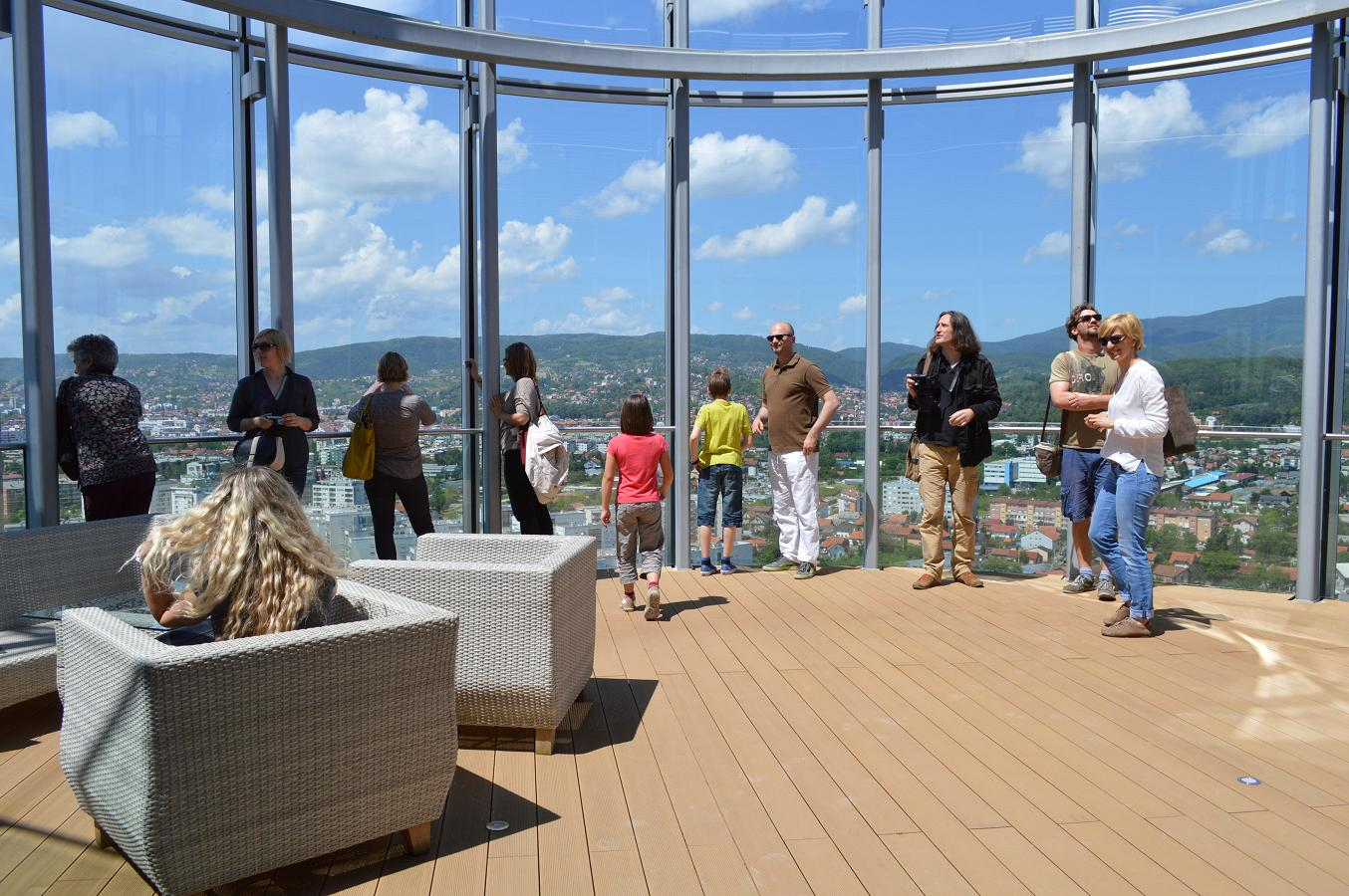 Stručni obilazak na Danima zagrebačke arhitekture 2014.